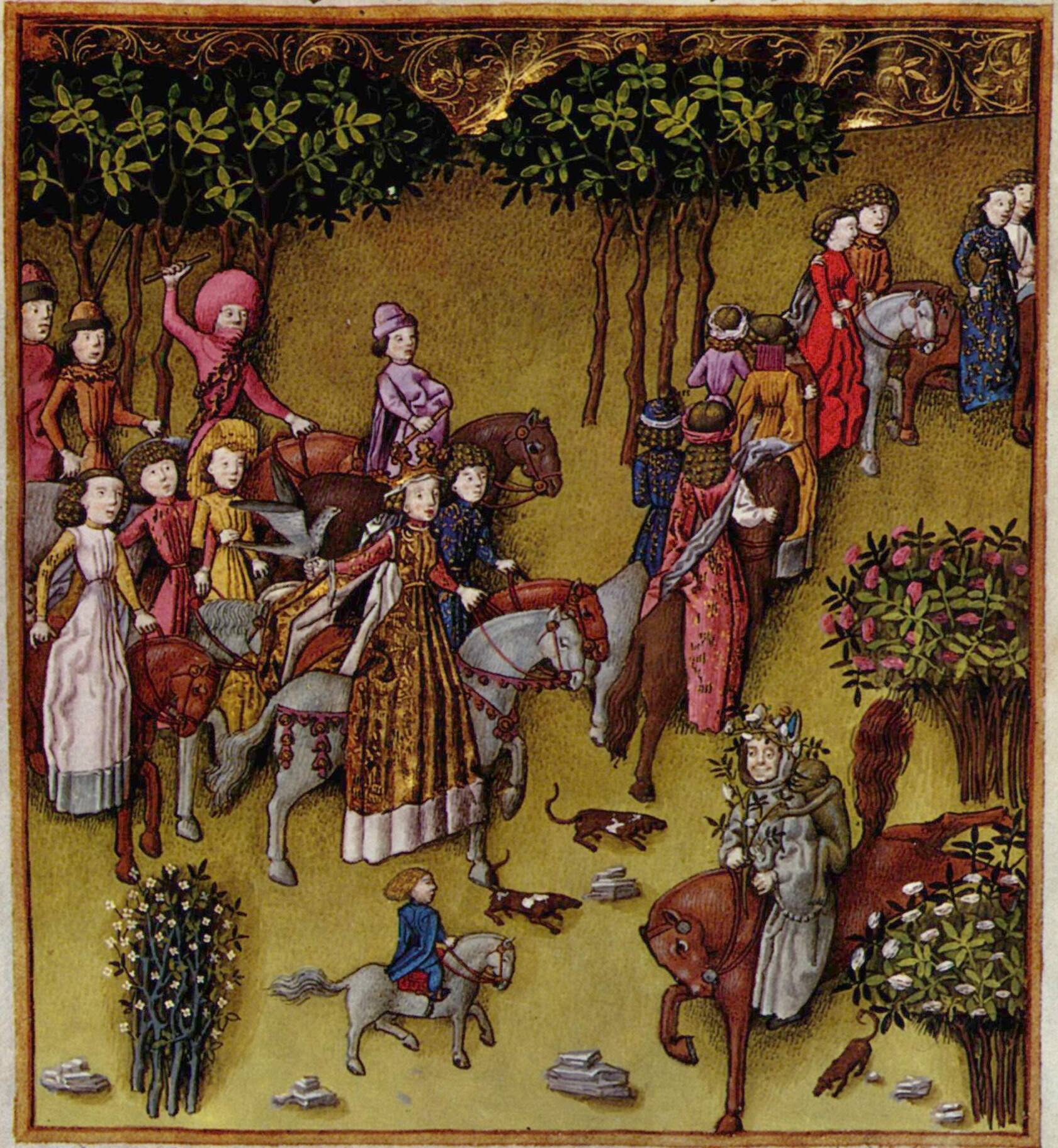 Cropped version of Image:Martinus opifex 001.jpg